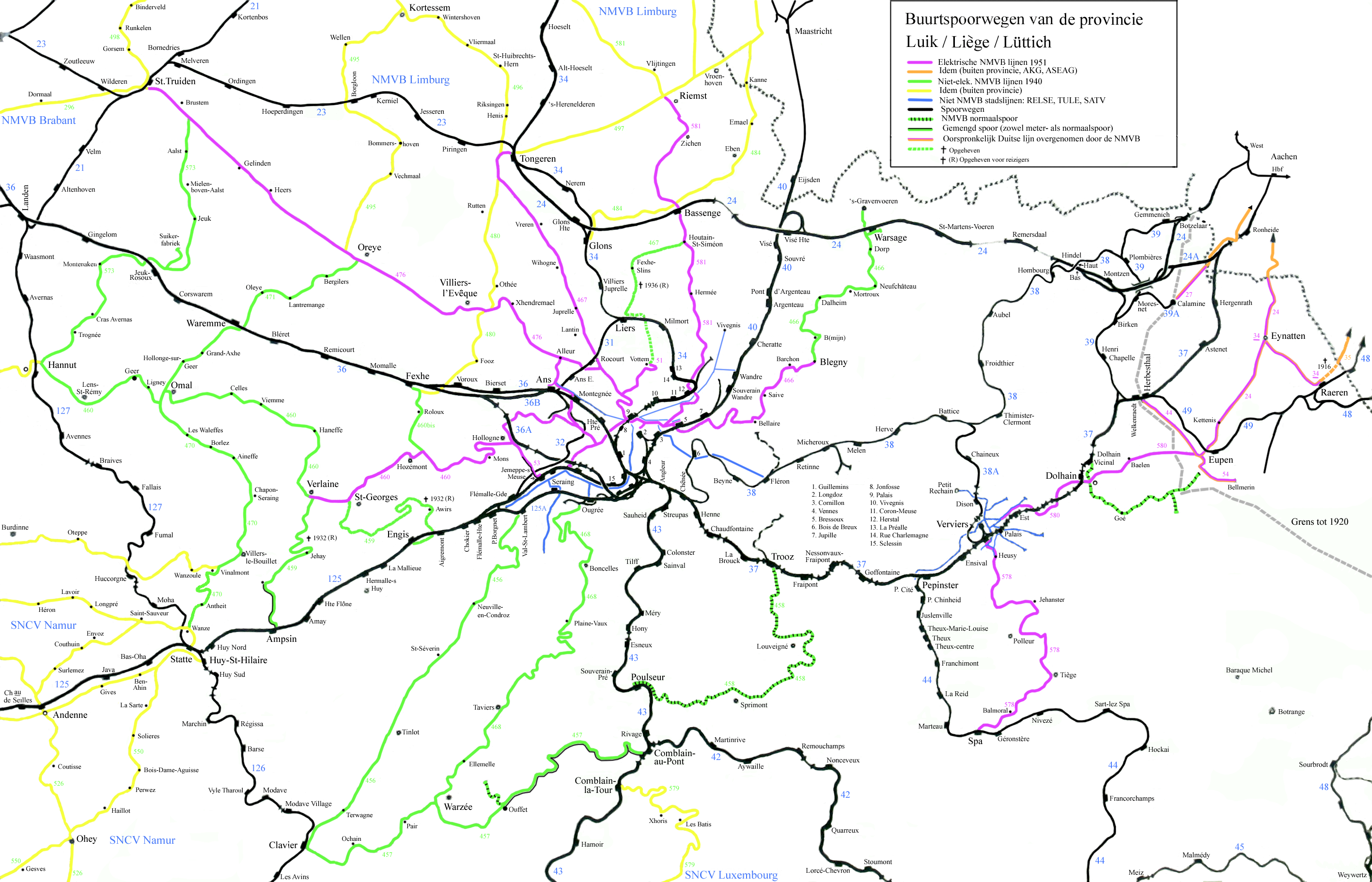 Map off the vicinal railways in the province of Liège. Purple lines = electrified lines in 1951 Brown lines = idem, but outside the province Green lines = non-electrified lines in 1940 Yellow lines = idem, but outside the province Blue lines = Some lines off the Liege and Verviers citytram Black lines = Railways (normal gauge)